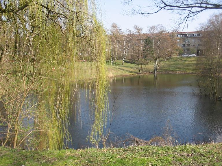 Alboinplatz in Berlin-Schöneberg, Germany. Naturdenkmal Toteisloch „Blanke Helle“.